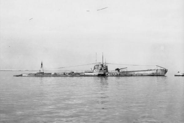 Japanese submarine Maru-4 (ex-UC90), at Yokosuka.